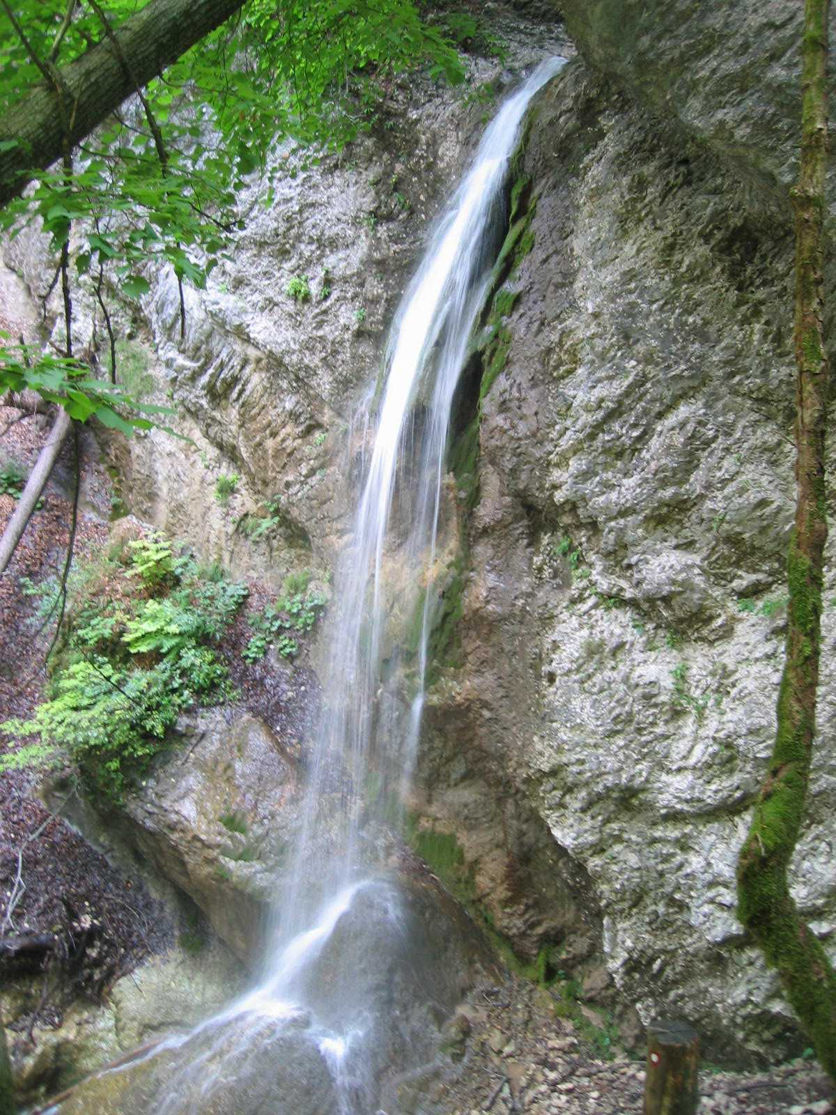 Pekel «(Hell)» - near Borovnica, at the edge of Ljubljana valley. Waterfall #4 photo:Ziga 11:17, 29 July 2006 (UTC)